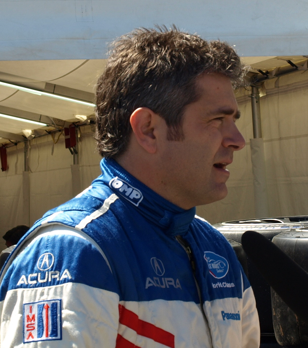 Gil de Ferran at the 2008 Petit Le Mans at Road Atlanta.